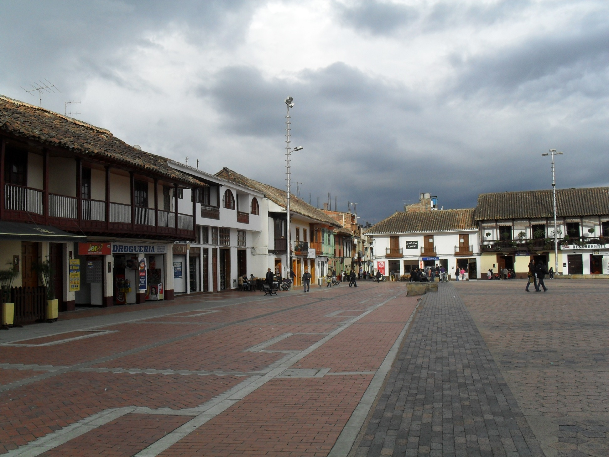 Nineteenth century houses in the main square in the city of Chiquinquira, Boyacá, Colombia